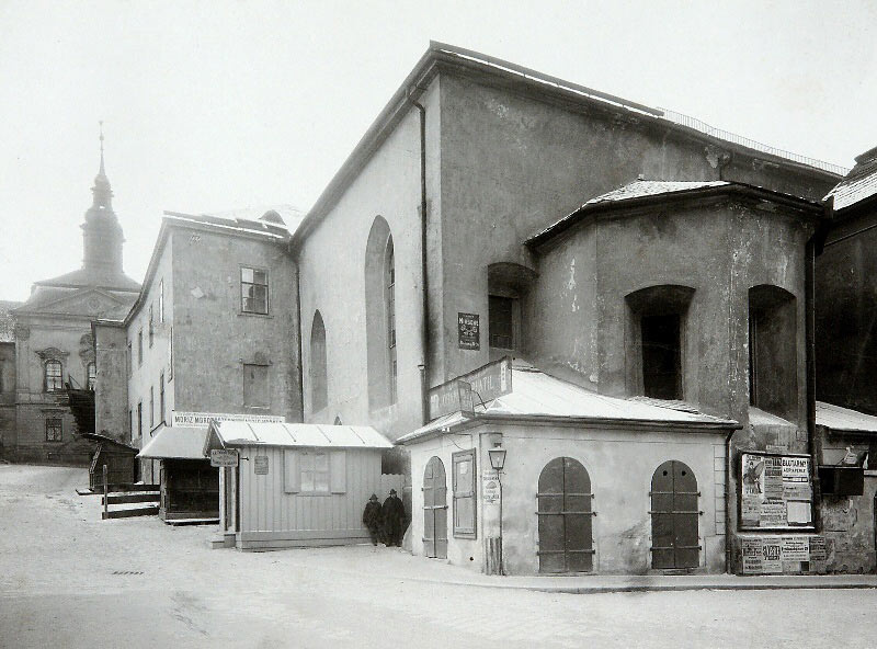 Royal chapel at Dominikánské náměstí, Brno, Czech Republic